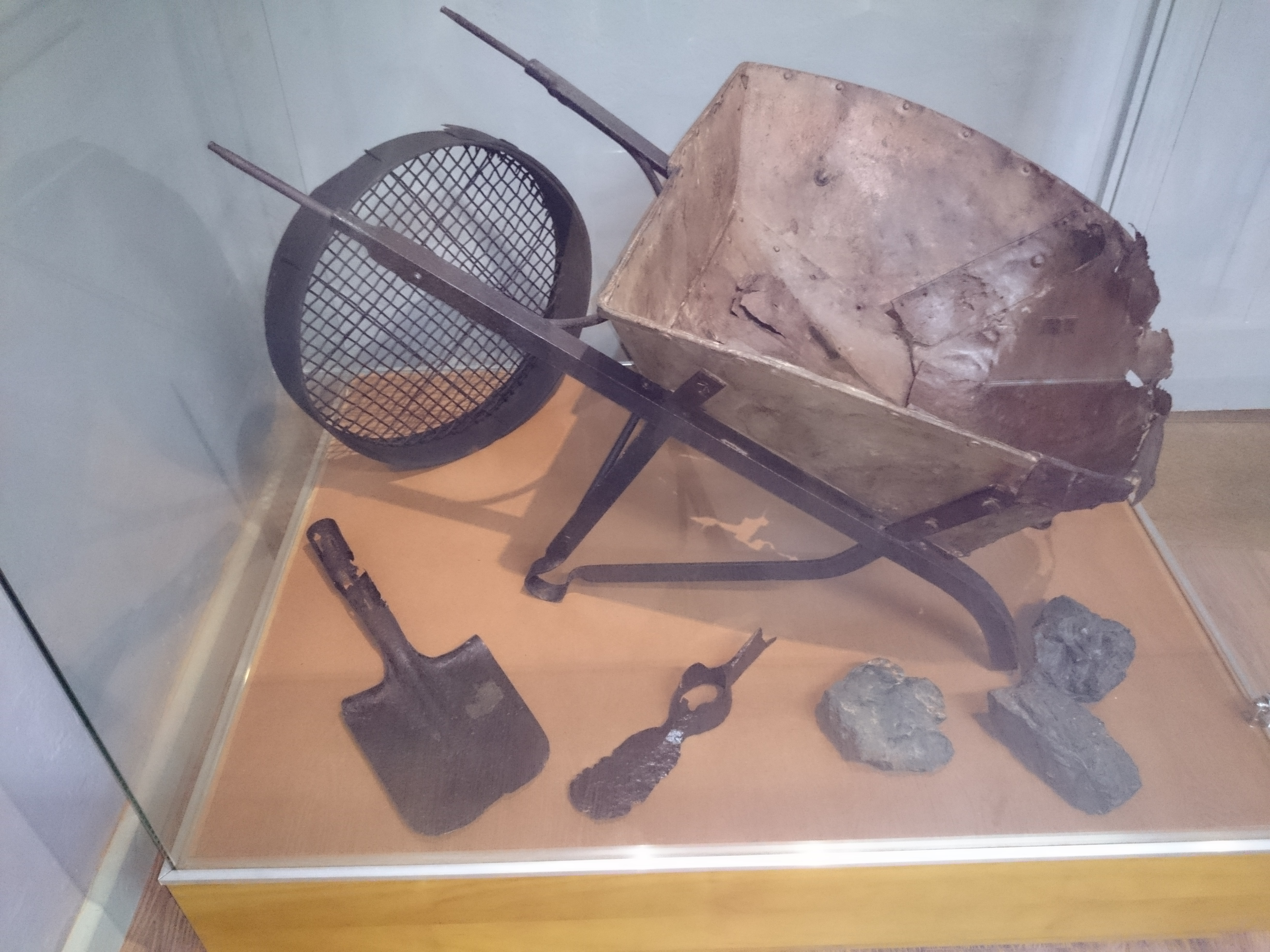 Real manganese rocks on display with related tools in mining the mineral